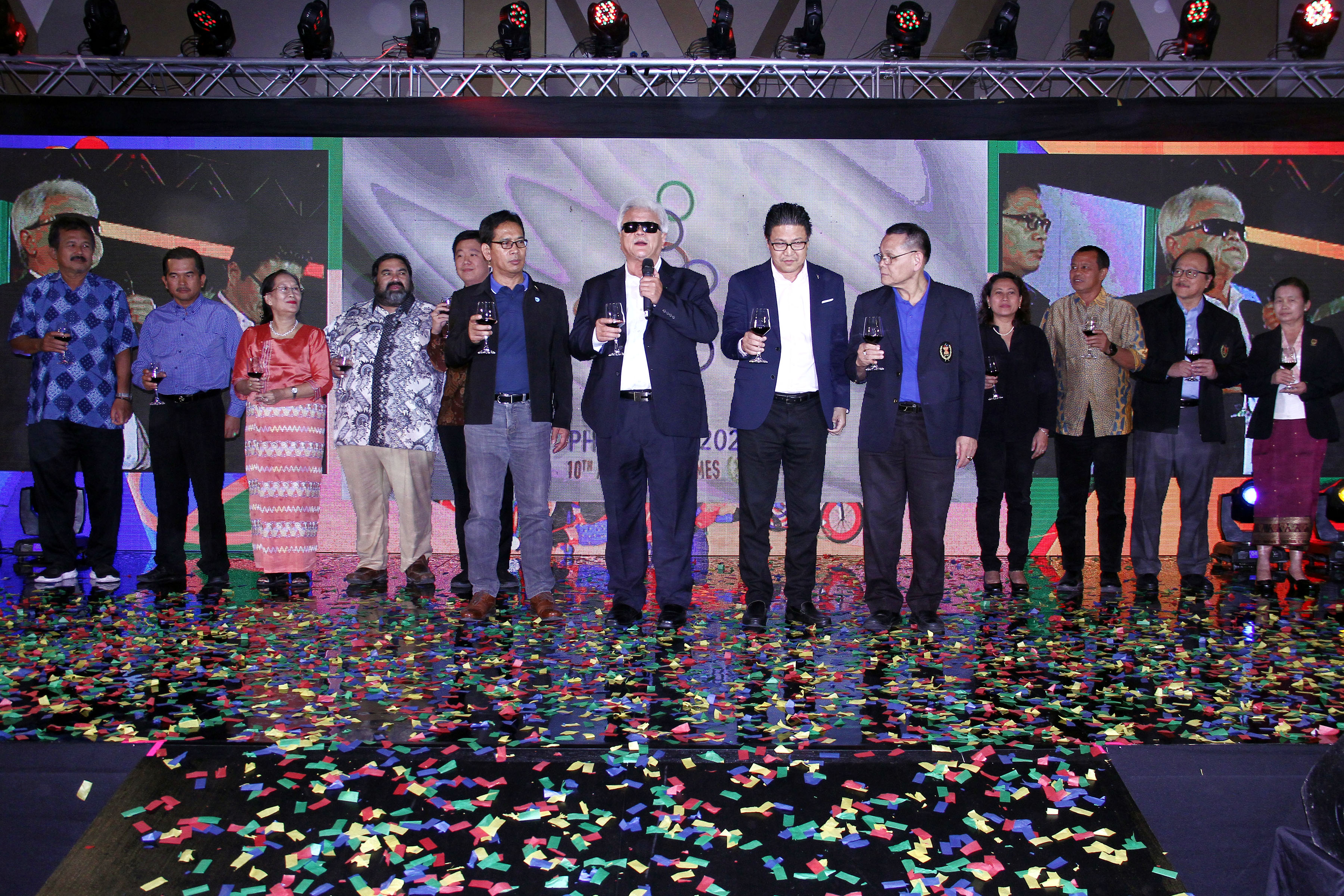 Officials of the ASEAN Para Sports Federation make a ceremonial toast to mark the one year countdown for the 10th ASEAN Para Games, at the Novotel Hotel in Cubao, Quezon City on Friday (Jan. 18, 2019). This will be the Philippines' second time to host the regional sporting event since 2005. (PNA photo by Jess M. Escaros Jr.)